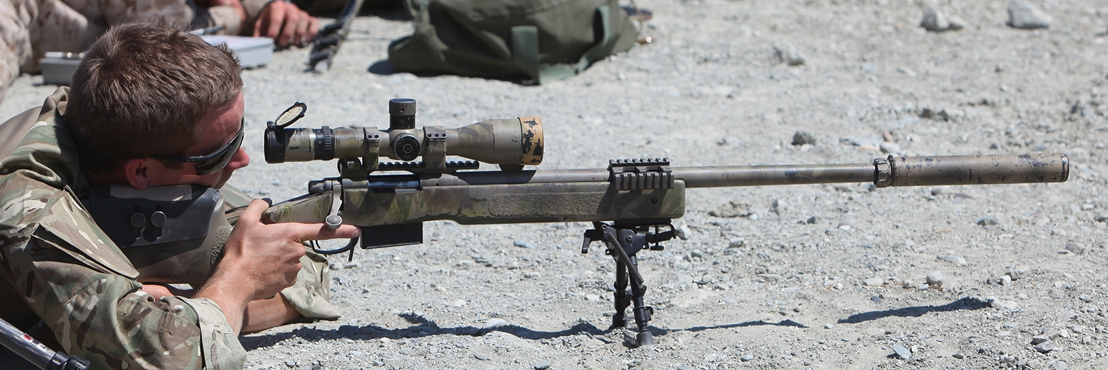 USMC M40A5 Sniper Rifle